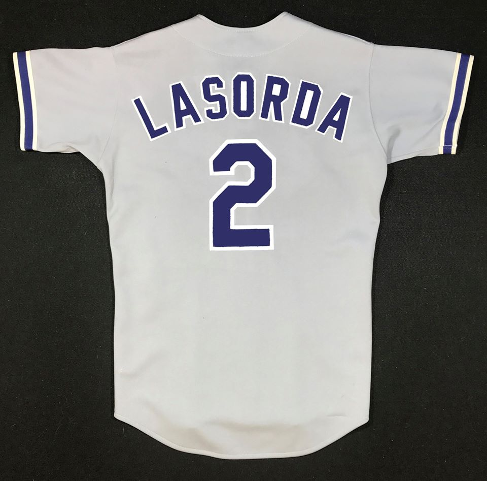 1980 Los Angeles Dodgers #2 Tommy Lasorda road jersey lettered and photographed by William F. Henderson who may be contacted through his website thedream.shop